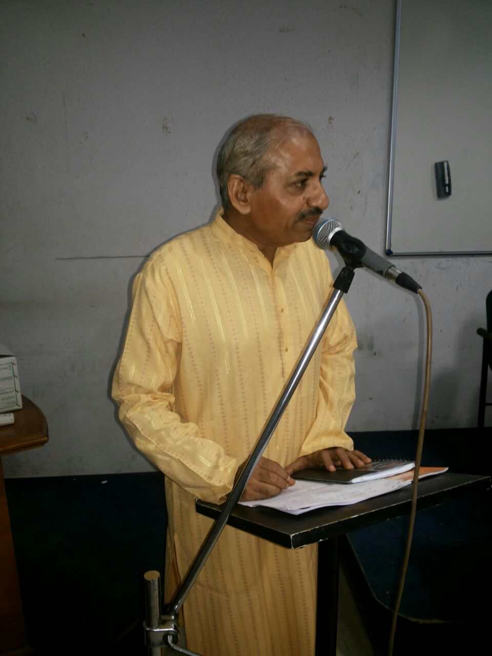 Harshadev Madhav at H.K. Arts College, Ahmedabad on 15 August 2014